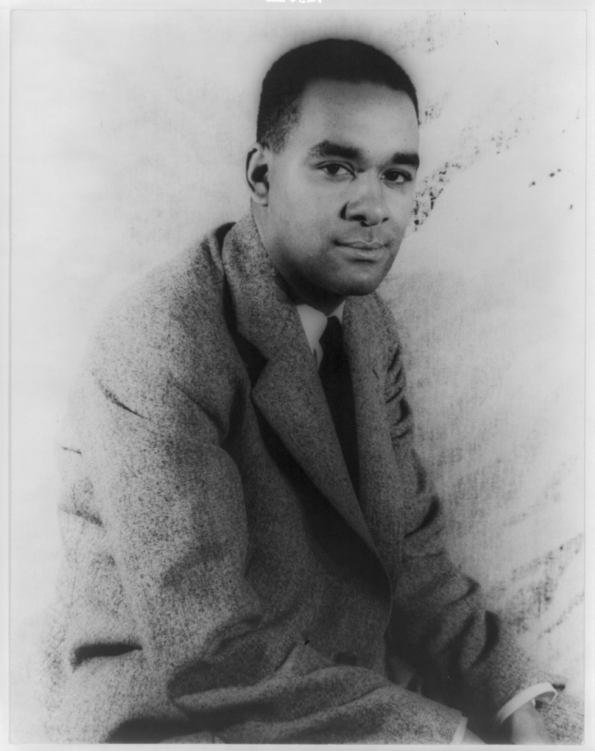 Portrait of Richard Wright